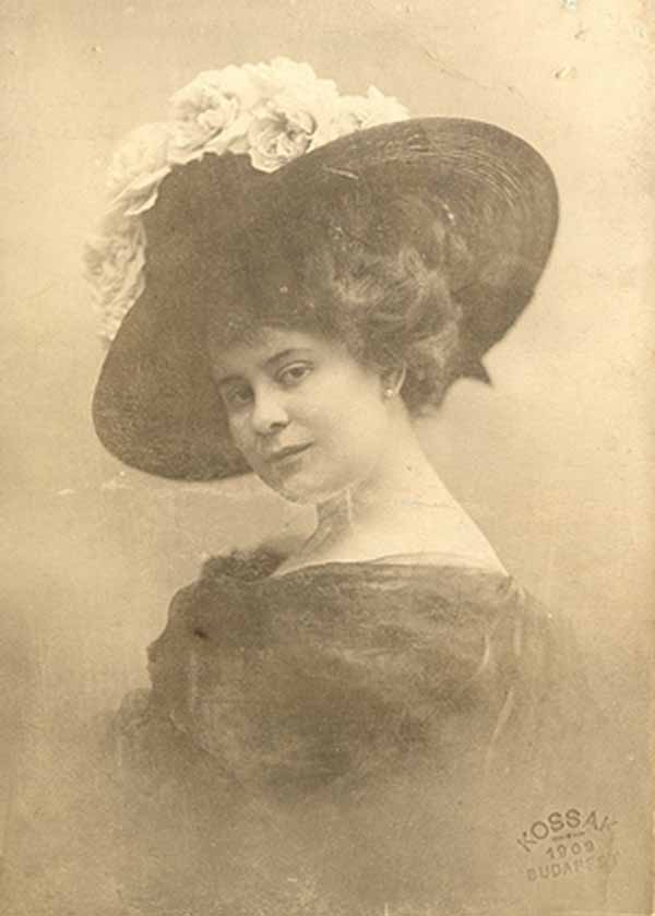 Portrait of Giza Báthory